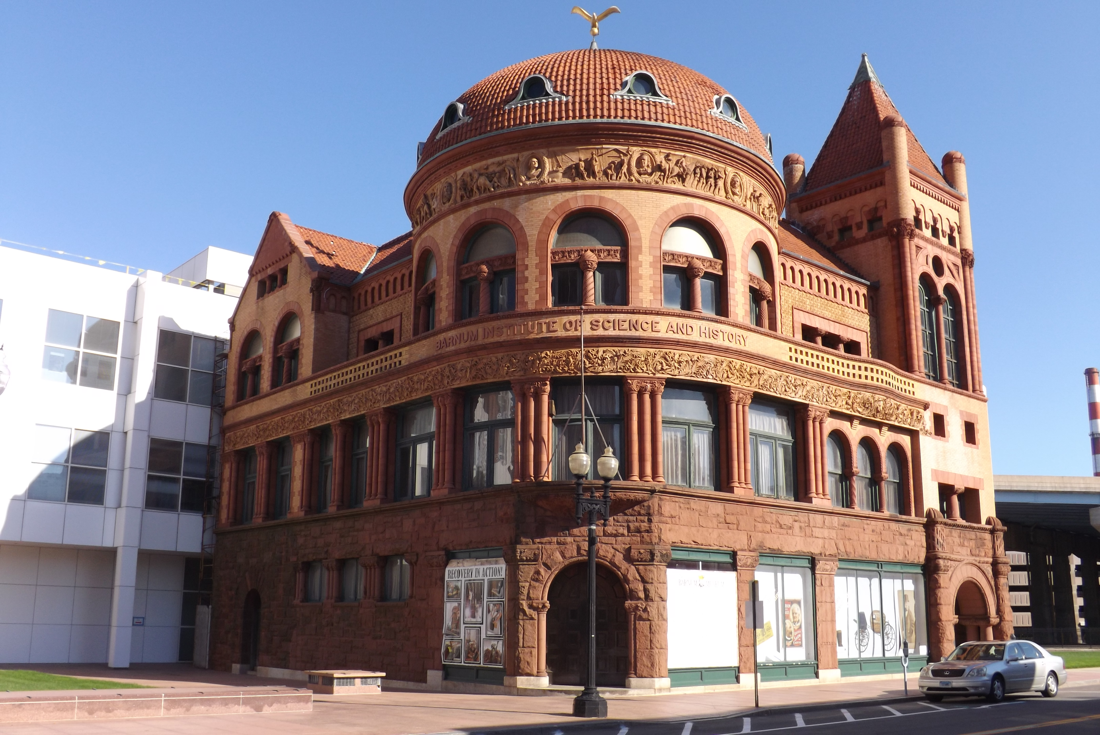 805 Main Street, Bridgeport, Ct